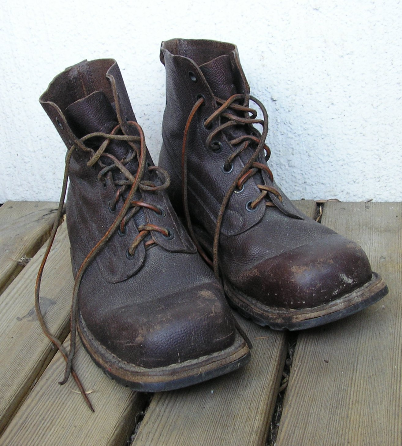 Swedish army boots made by Tretorn. These are NOS from 1968. Over time (and with the use of shoe polish) they turn black. They are made to be used as ski boots as well. Part of the m/59 uniform. I think they were also used by the British SAS during the Falkland war since they worked better in a damp climate than their ordinary boots.[1]